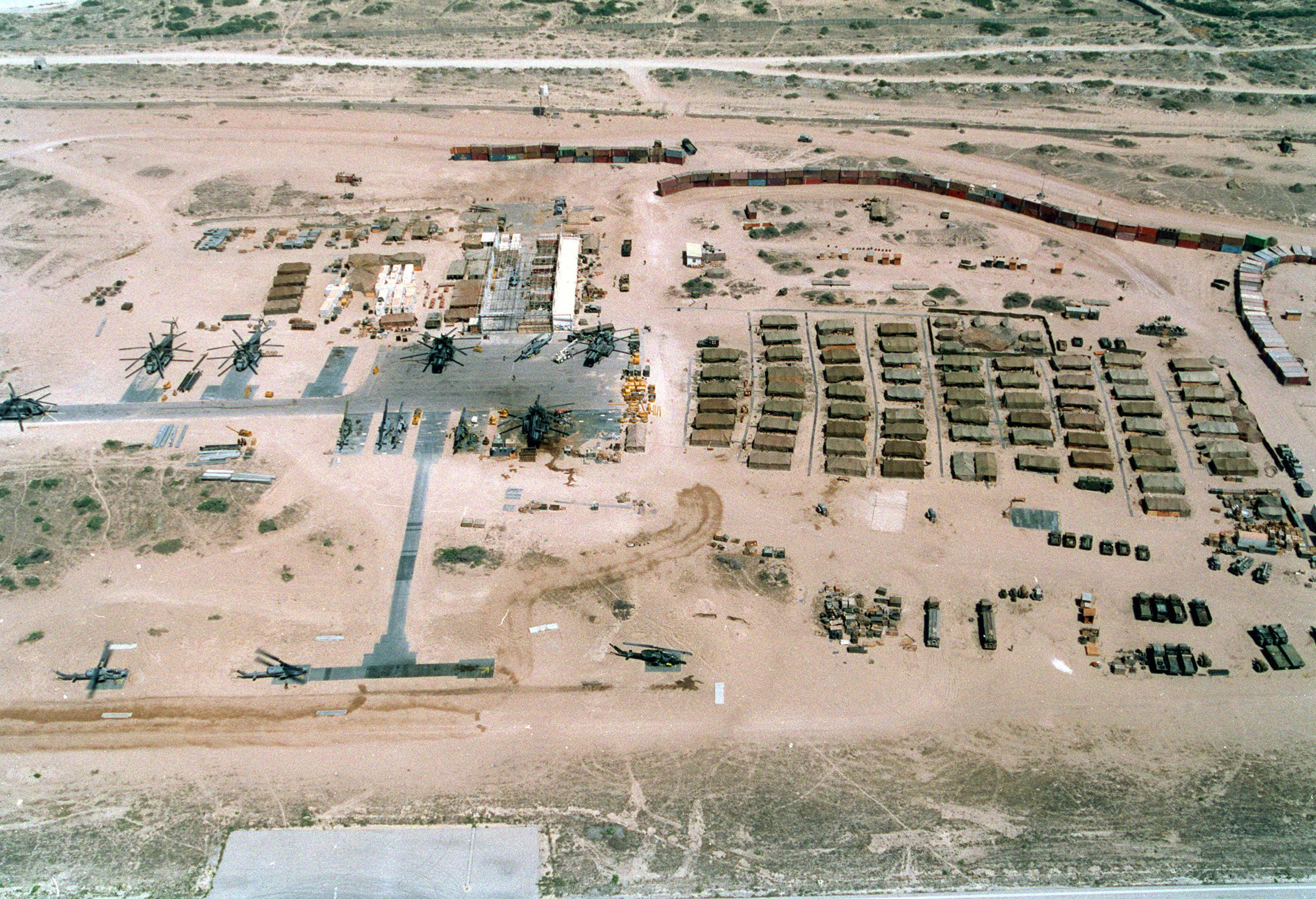 The Air Combat Element for Marine Forces Somalia moved their base of operations from an abandoned Soviet airfield in Beledogle to the international airport in Mogadishu on 25 Feb 93. This site was utilized until May 93. The double container wall was constructed on 3 Mar 93 to thwart random sniper fire.